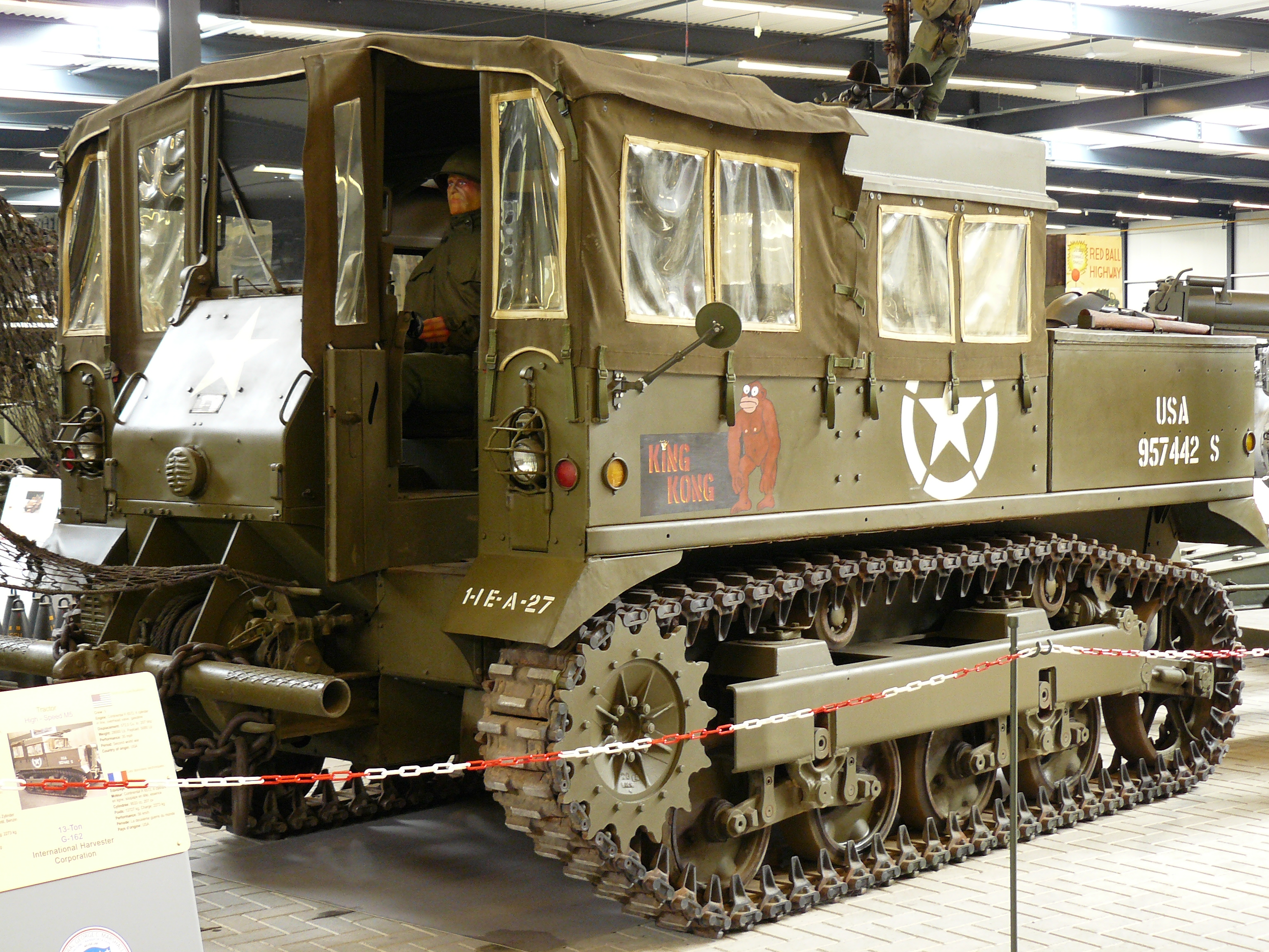 M5 High-Speed Artillery Tractor. As seen in Overloon War Museum, Netherlands. April 2008